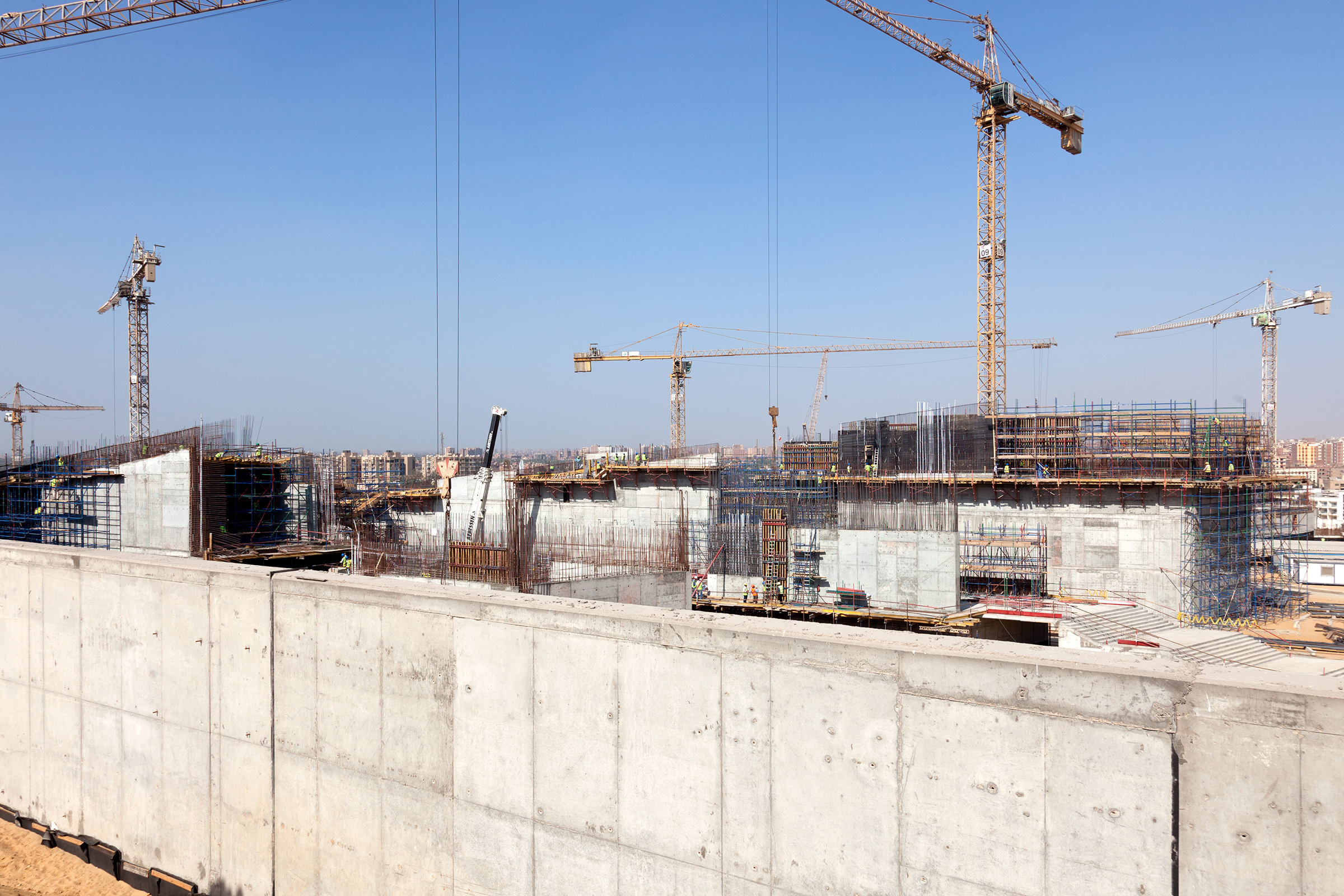 Grand Egyptian Museum under construction in 2015